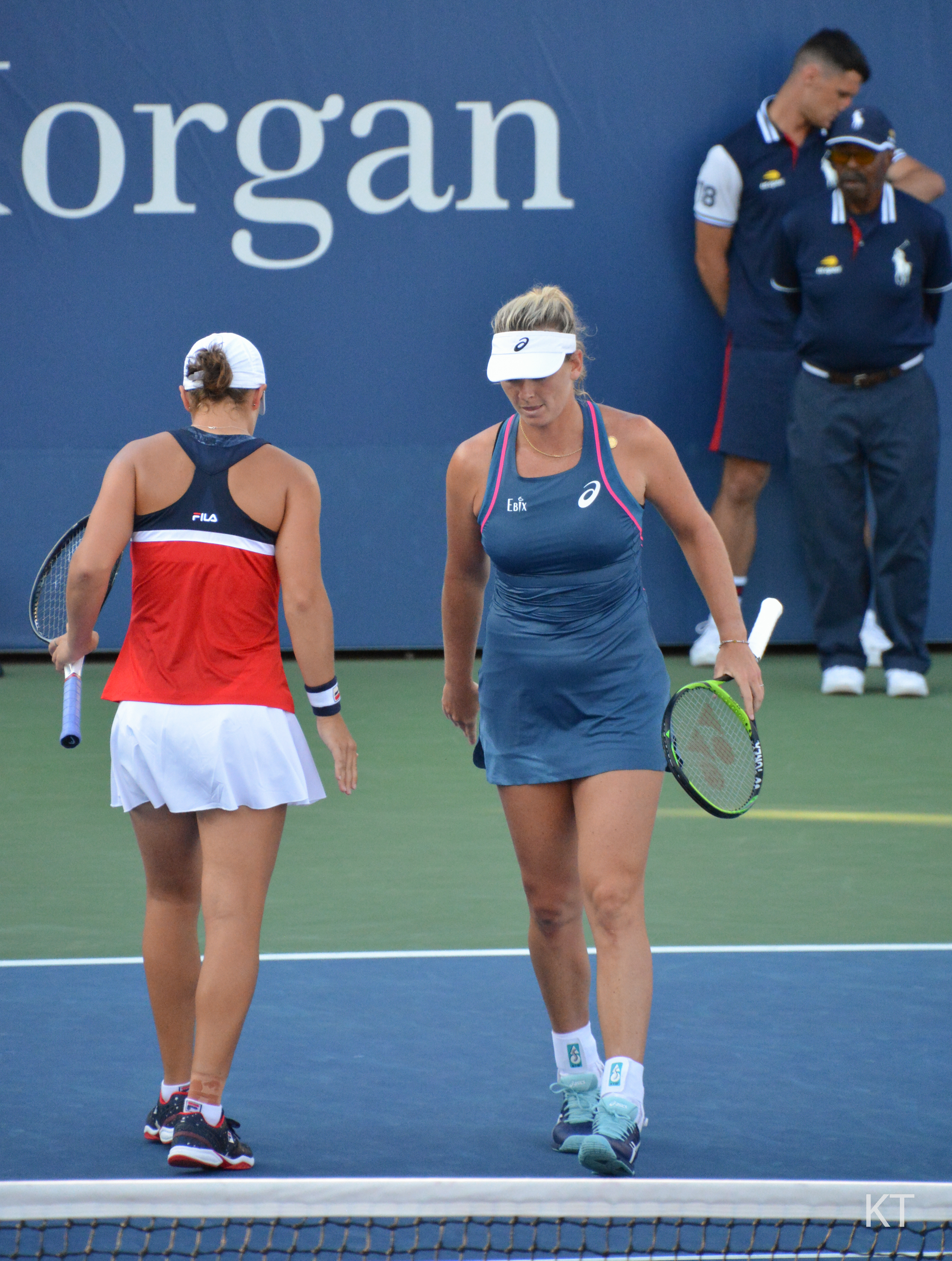 First round women's doubles: Ash Barty & CoCo Vandeweghe v Qiang Wang & Yafan Wang. Barty & Vandeweghe won 6-3, 6-0, and went on to win the title. Day 4 of US Open 2018.